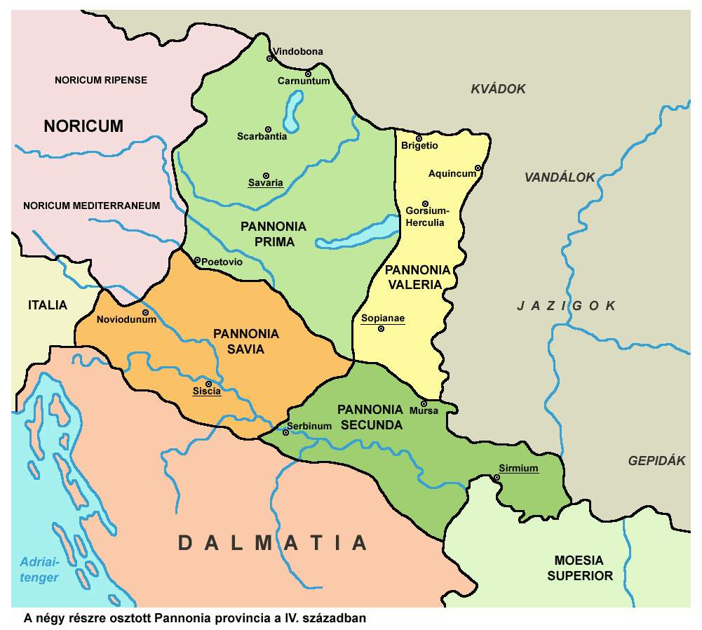 Pannonias in the 4th century